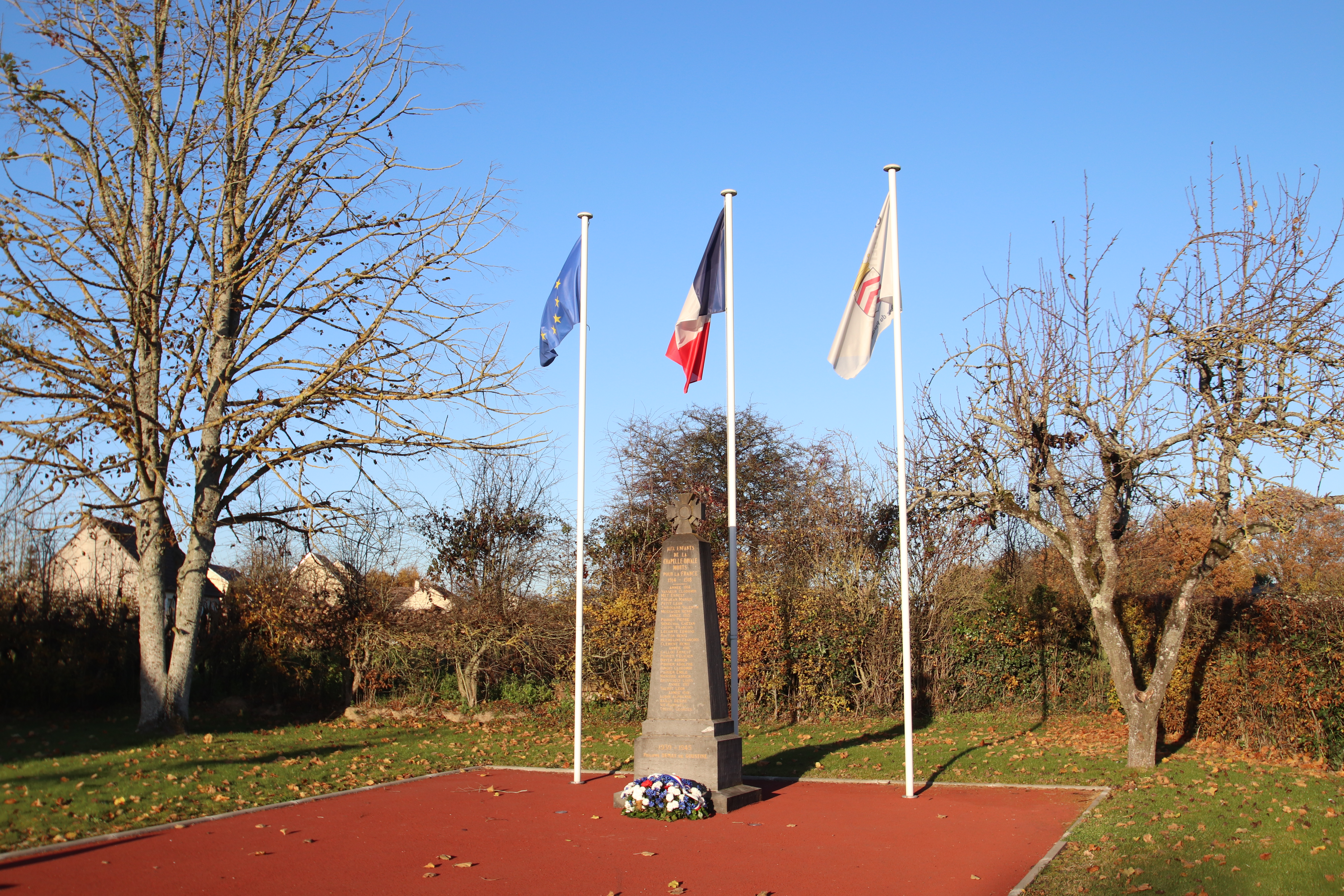 War memorial at Chapelle-Royale, France. Object location48° 08′ 37.57″ N, 1° 03′ 13.36″ E